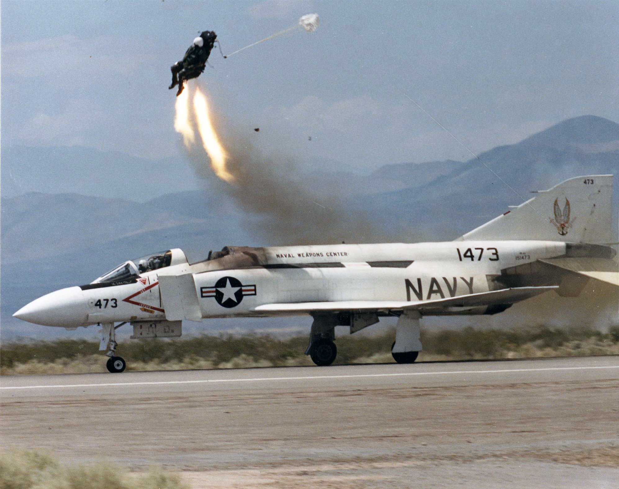 View of the NACES seat test using a McDonnell YF-4J Phantom II (BuNo 151473) at the U.S. Navy Naval Weapons Station China Lake, California (USA), in 1987. This aircraft had originally been delivered as a F-4B-19-MC (c/n 550). It was later converted to an YF-4J prototype, together with BuNos 151496 and 151497. It was later used as an ejection seat testbed at China Lake. As of 2012, it is on display at the main gate at China Lake.